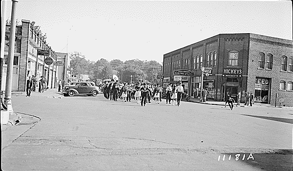 Parade along Rockwood Avenue, photographed by TVA in 1940 as part of the Watts Bar Dam project.